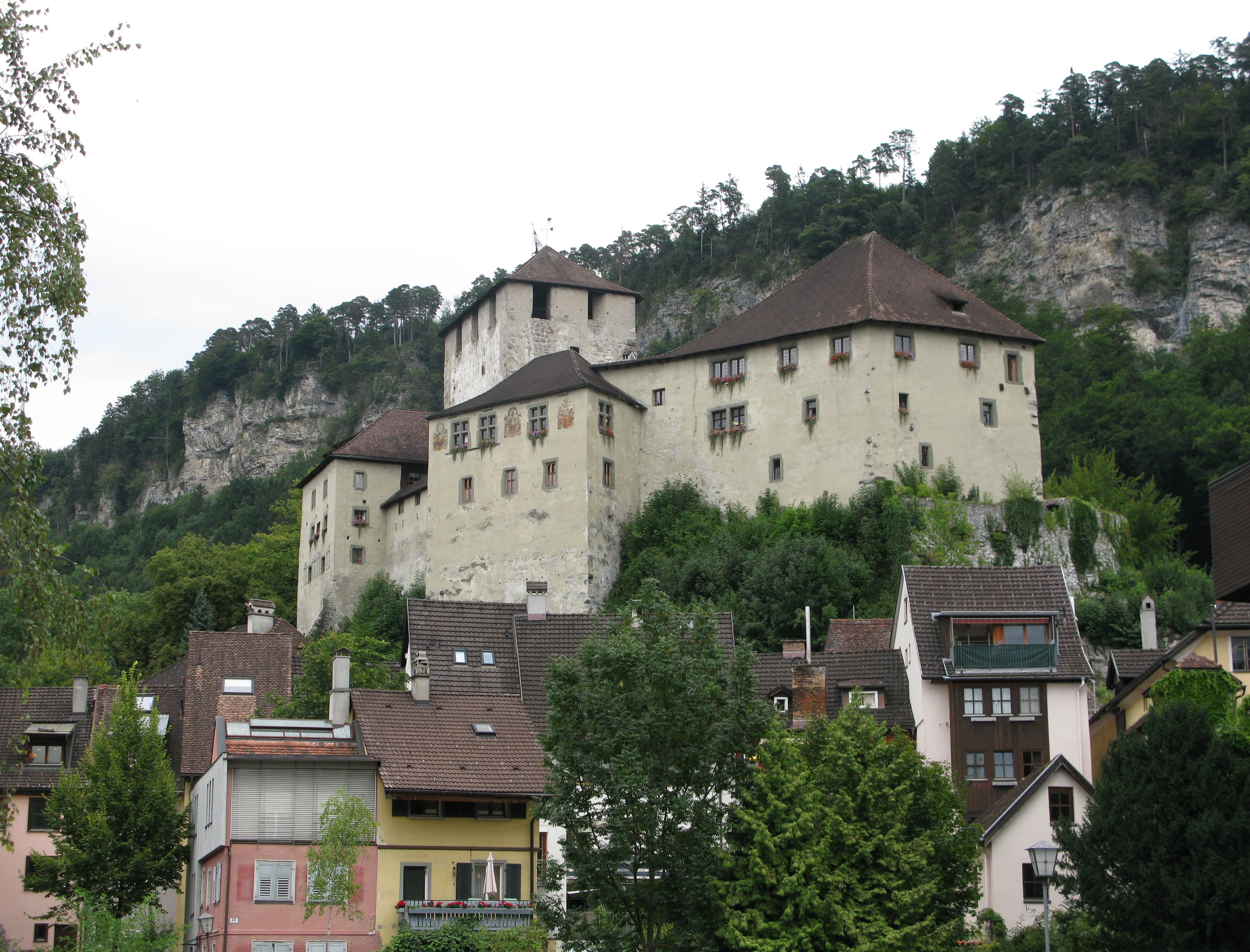 The Schattenburg (castle) in Feldkirch, Vorarlberg, Austria.